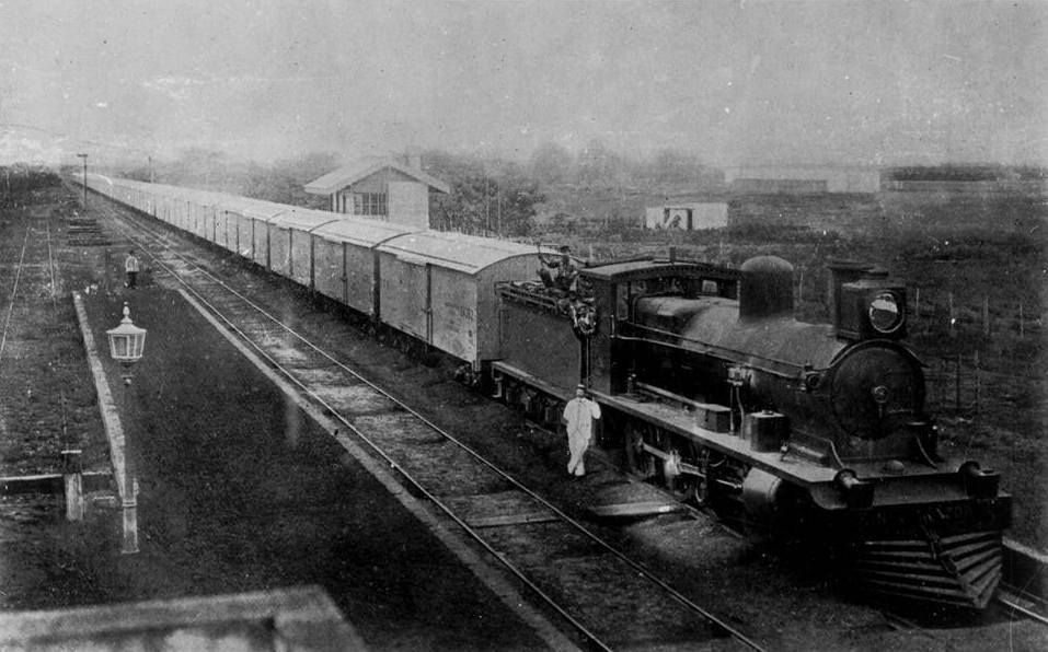 Freight train stopped at Fisherton station (then renamed "Antártida Argentina") of Rosario, Argentina. The photo was taken from the station's roof.